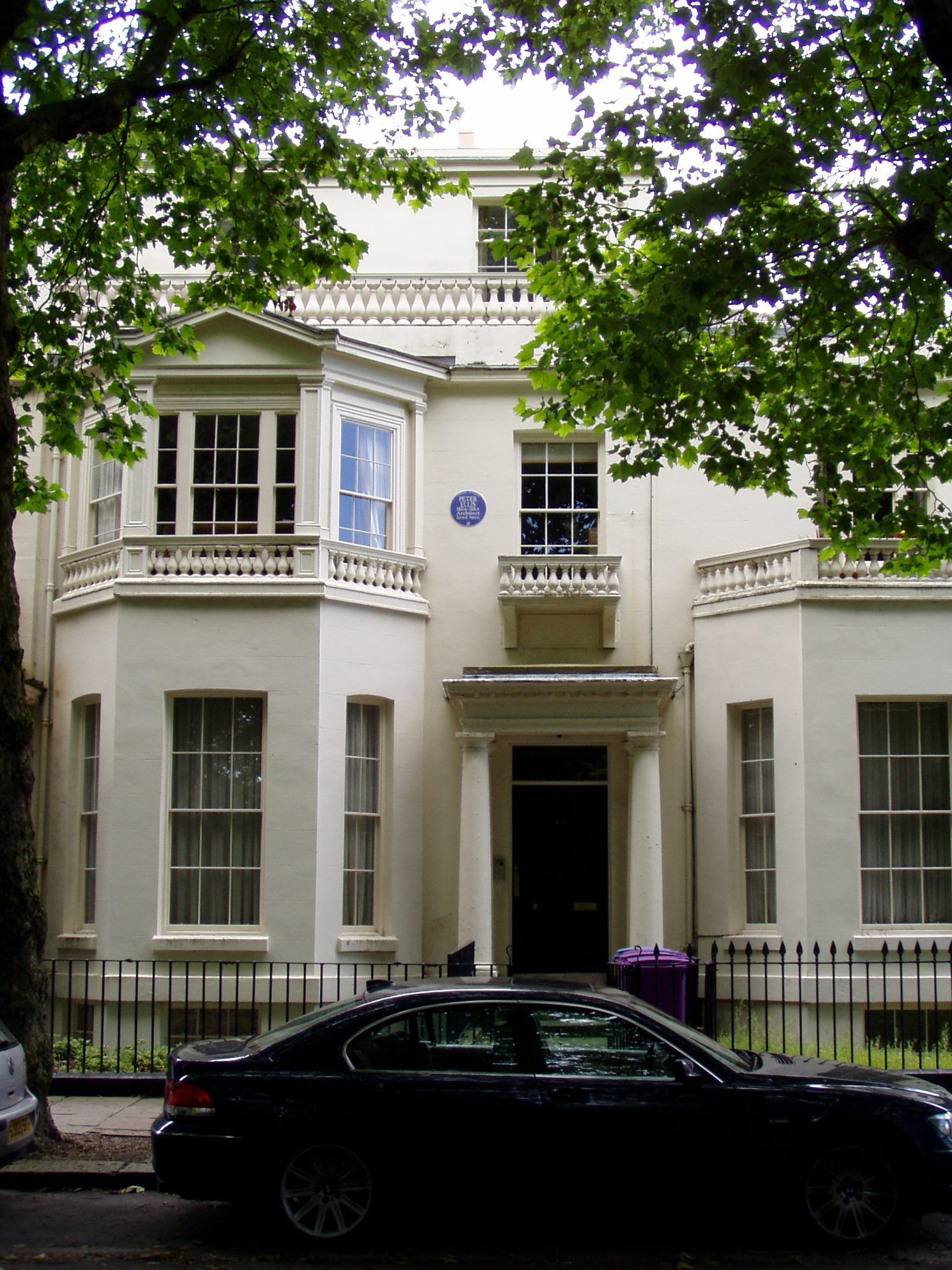 40 Falkner Square Liverpool. Home of Peter Ellis